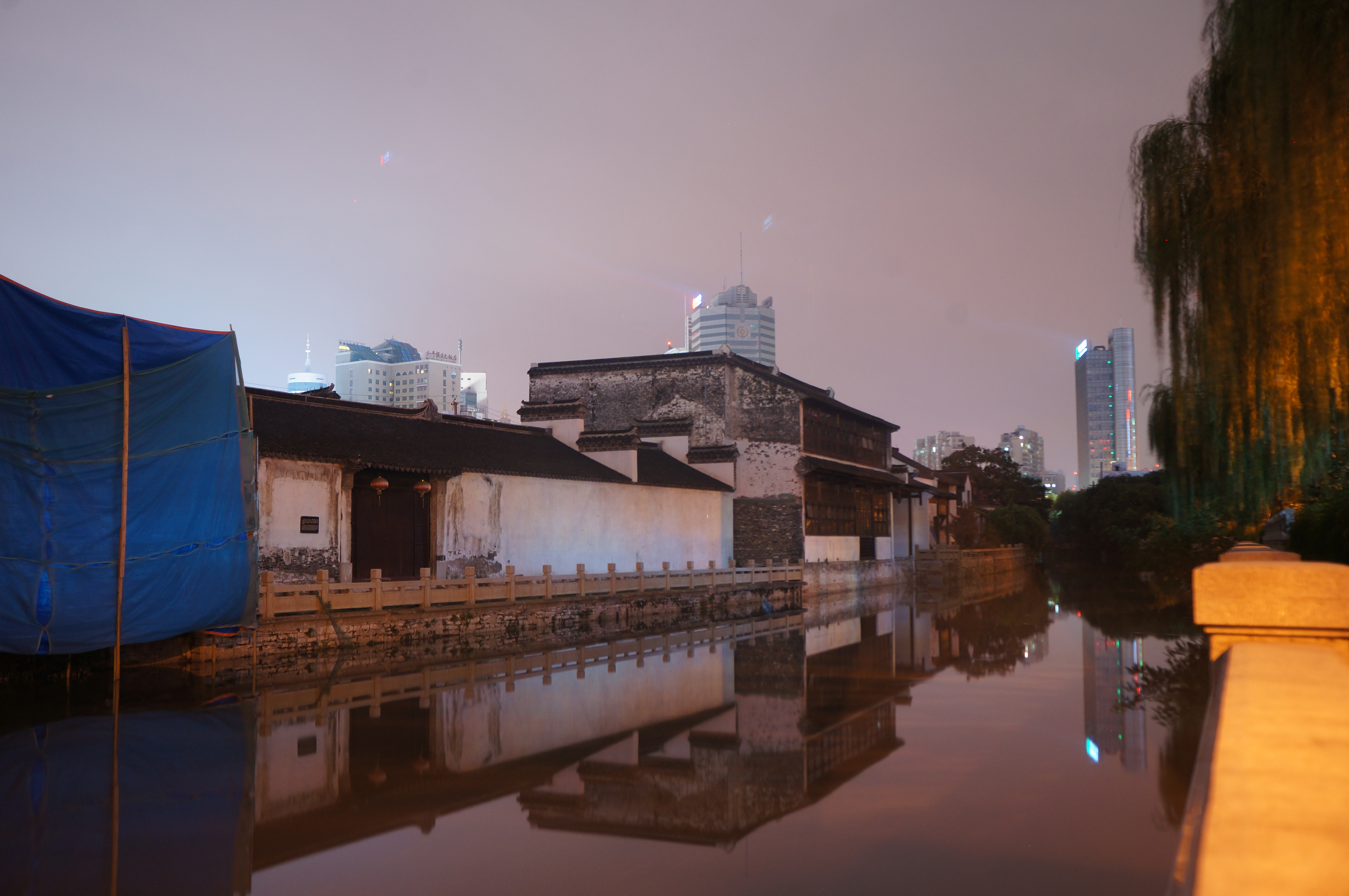 201610 Qingguo Alley at nigh, restoration project is under construction...